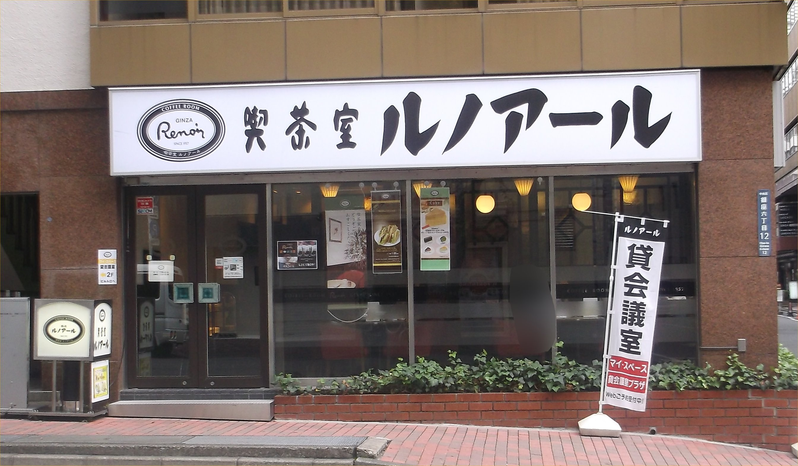 A photo of "Cafe Renoir"Ginza 6 chome branch shop,Ginza,Chuo-ku,Tokyo Japan.